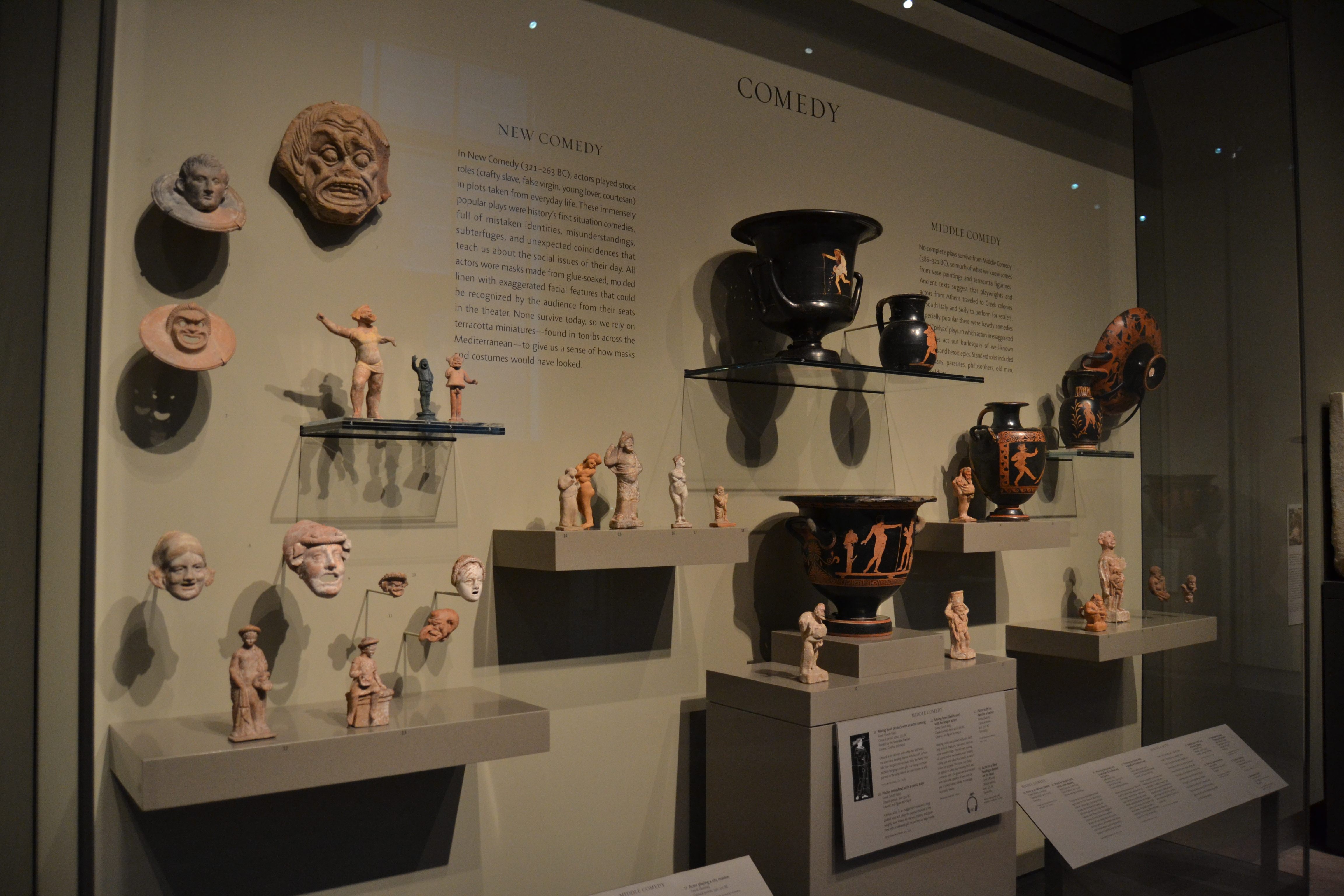 Since I lost some 10,000 images some time ago, I do not want to take that risk again, so I upload a larger number of images, even actually without editing or describing them. There are always the descriptions uploaded as file, everyone is invited to provide the pictures with descriptions. Since there is no suitable place to keep, only filing in the files namespace remains.